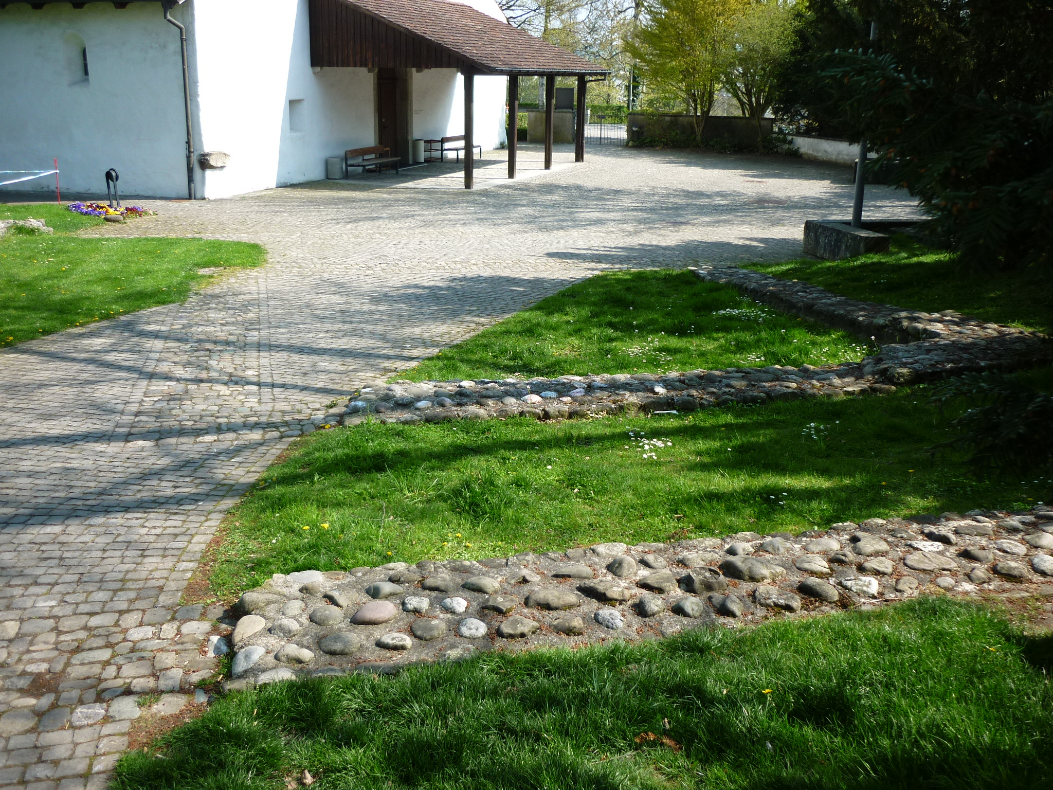 Roman remains, Oberwinterthur ZH, Switzerland